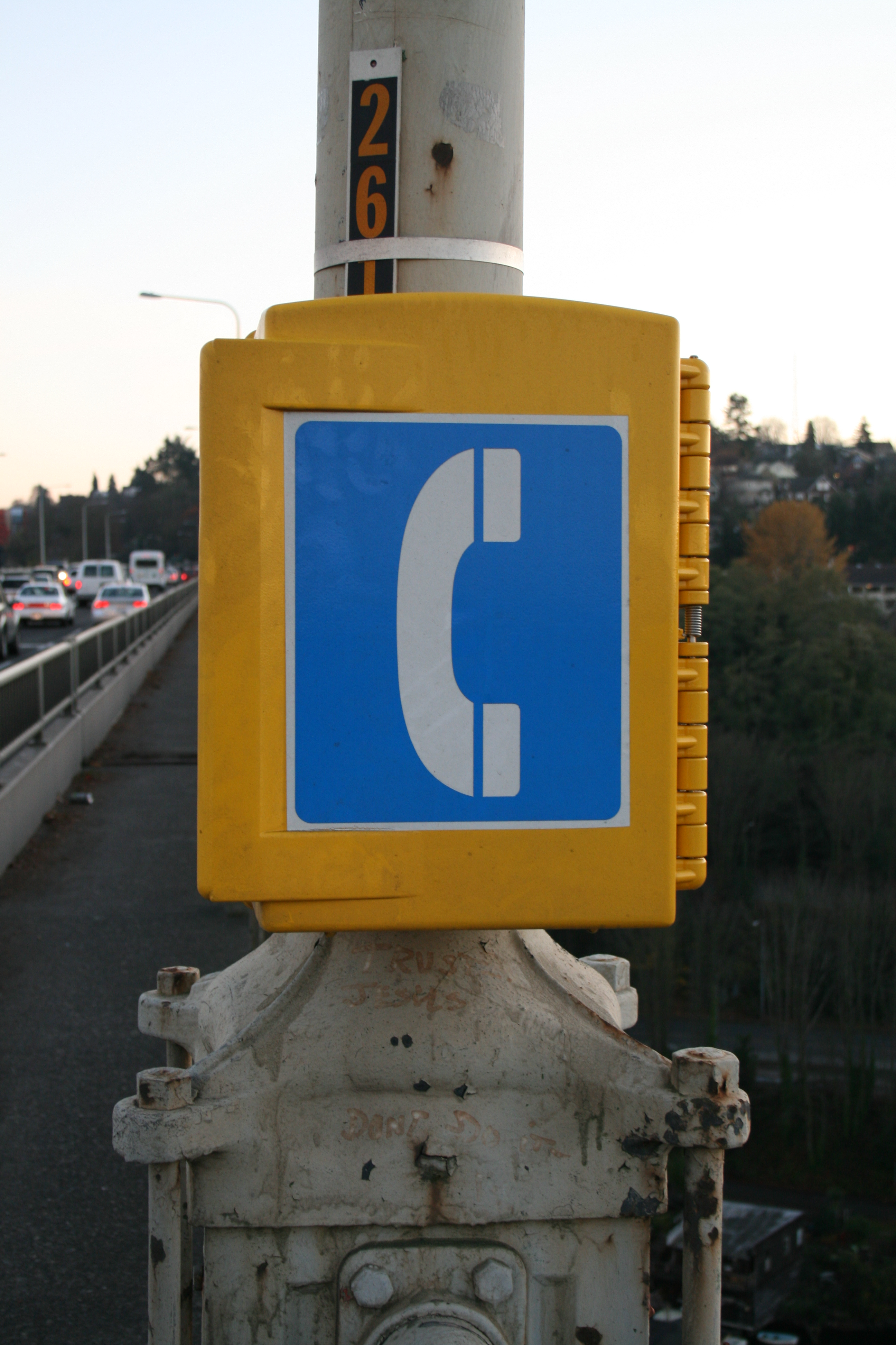 Emergency phone and sign on the George Washington Memorial Bridge, Fremont, Washington